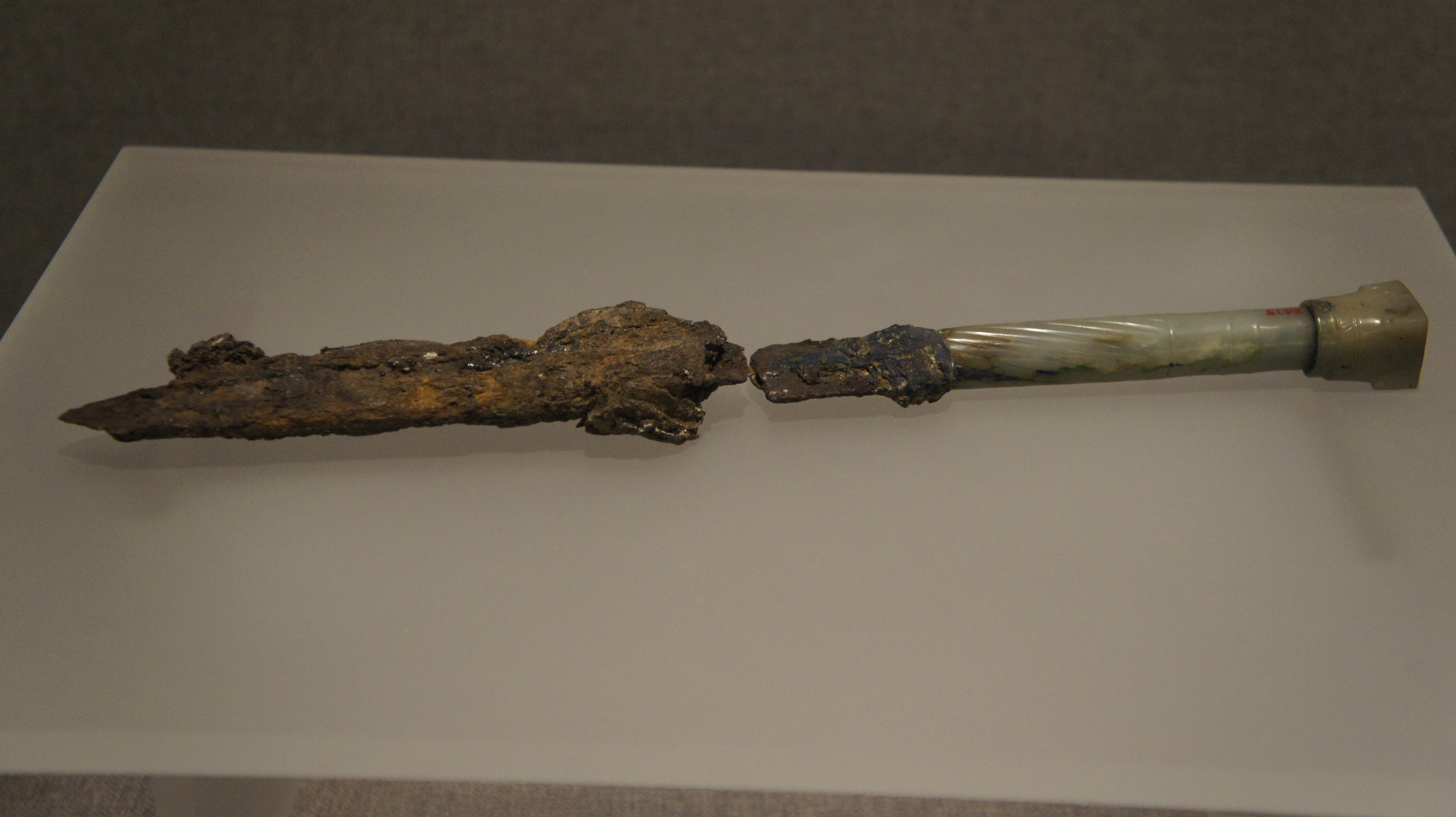 The earliest artificially cast iron sword from China, dated from Western Zhou (1046 BC-771 BC), excavated in 1990 from tomb No.2001 of State of Guo (虢) at Sanmenxia, Henan.